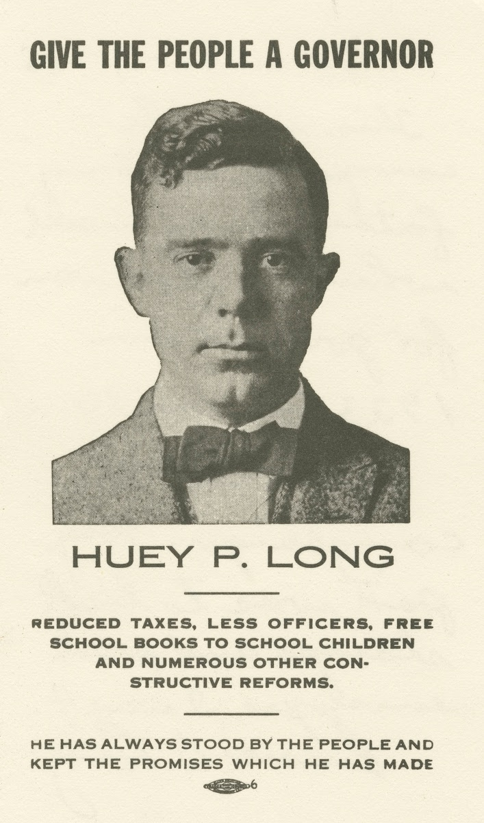 Campaign card for Huey Long's 1924 campaign for governor